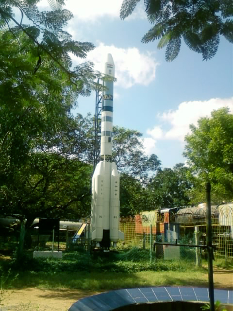 cheenai birla planitorium